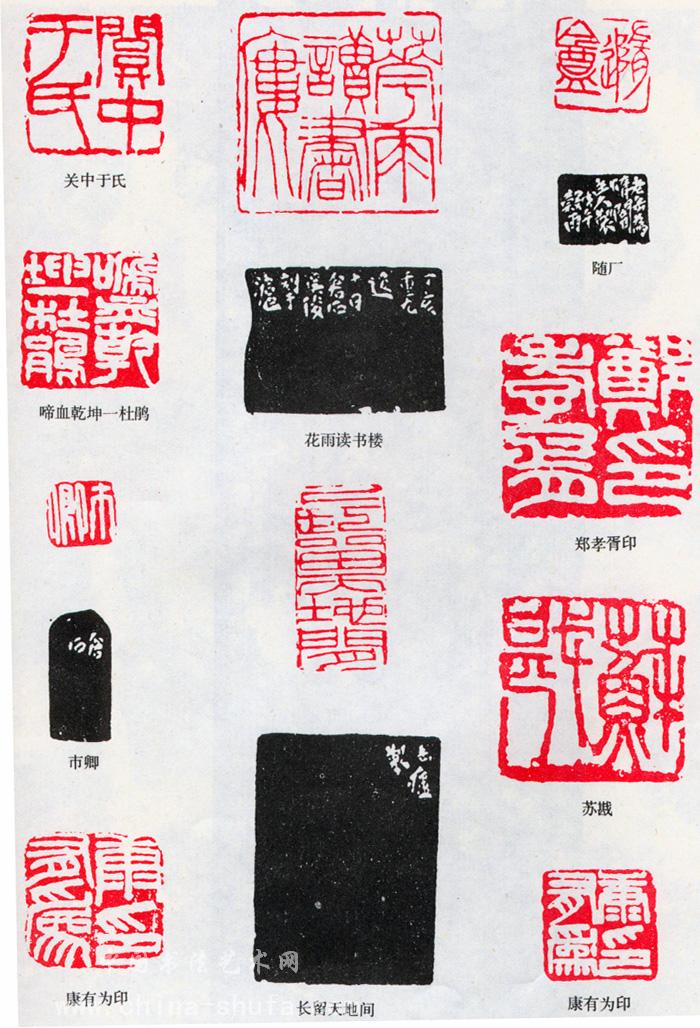 Seal cutting